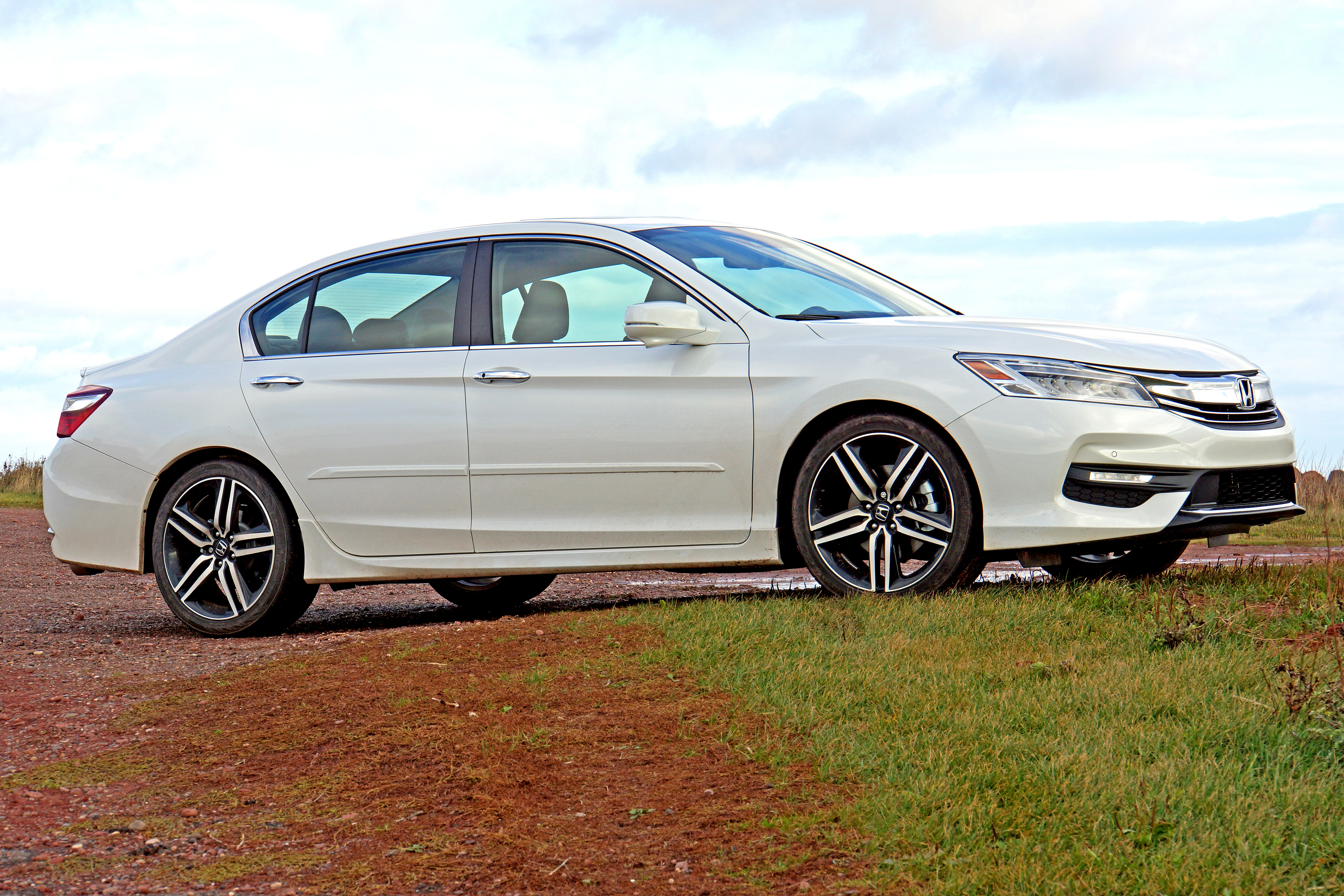 PLEASE, NO invitations or self promotions, THEY WILL BE DELETED. My photos are FREE to use, just give me credit and it would be nice if you let me know, thanks. This is my new car that I had just received before going to Prince Edward Island and started out with less than 200km on it. A 2016 Honda Accord Touring and it has everything that Honda has to offer. Many of the new safety items are fantastic, making driving easier and more relaxing. Well time to head back to Nova Scotia, I managed to get most of the lighthouses in Prince Edward Island. I have a lighthouse book; it started as "Lighthouses of Nova Scotia", but because I travel and got more in Canada and the World I changed the name to, "Lighthouses of Nova Scotia and Beyond". Well because of this trip and other places, I now call it; "Eastern Canadian Lighthouses and Beyond".